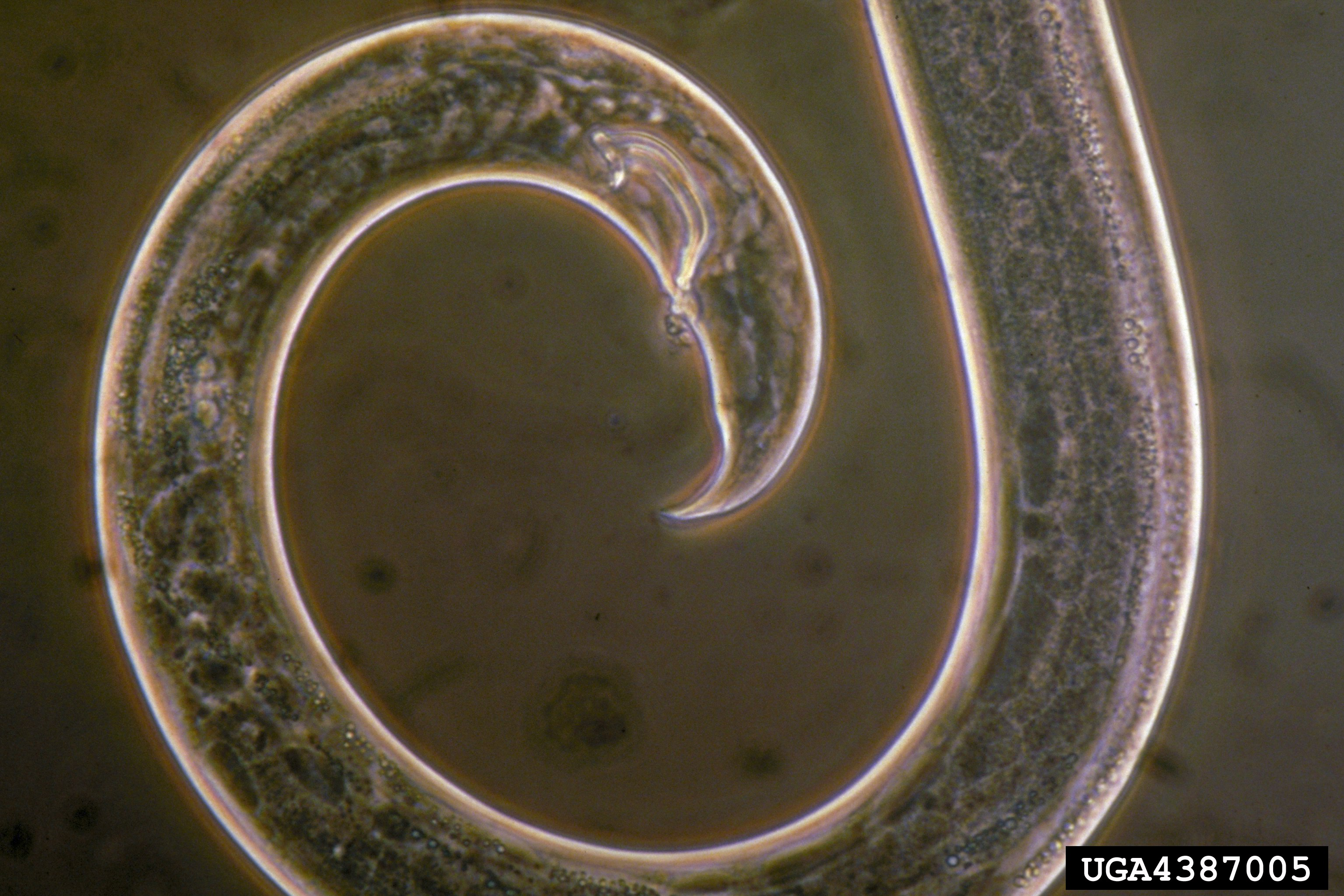 pine wilt nematode (Bursaphelenchus xylophilus) (Steiner & Buhrer) Nickle. Tale of male showing characteristic spicule.